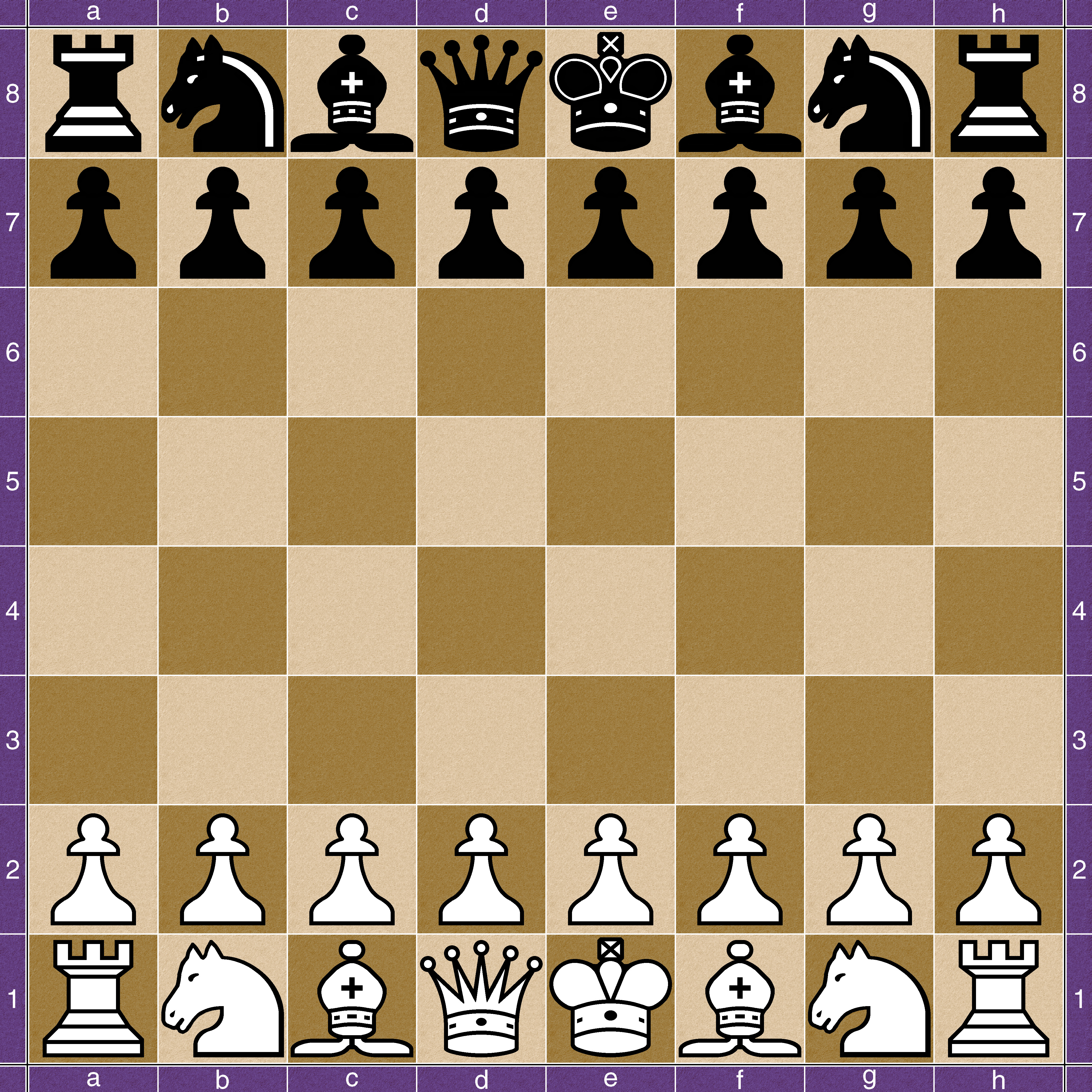 A classic chess game. Starting position.